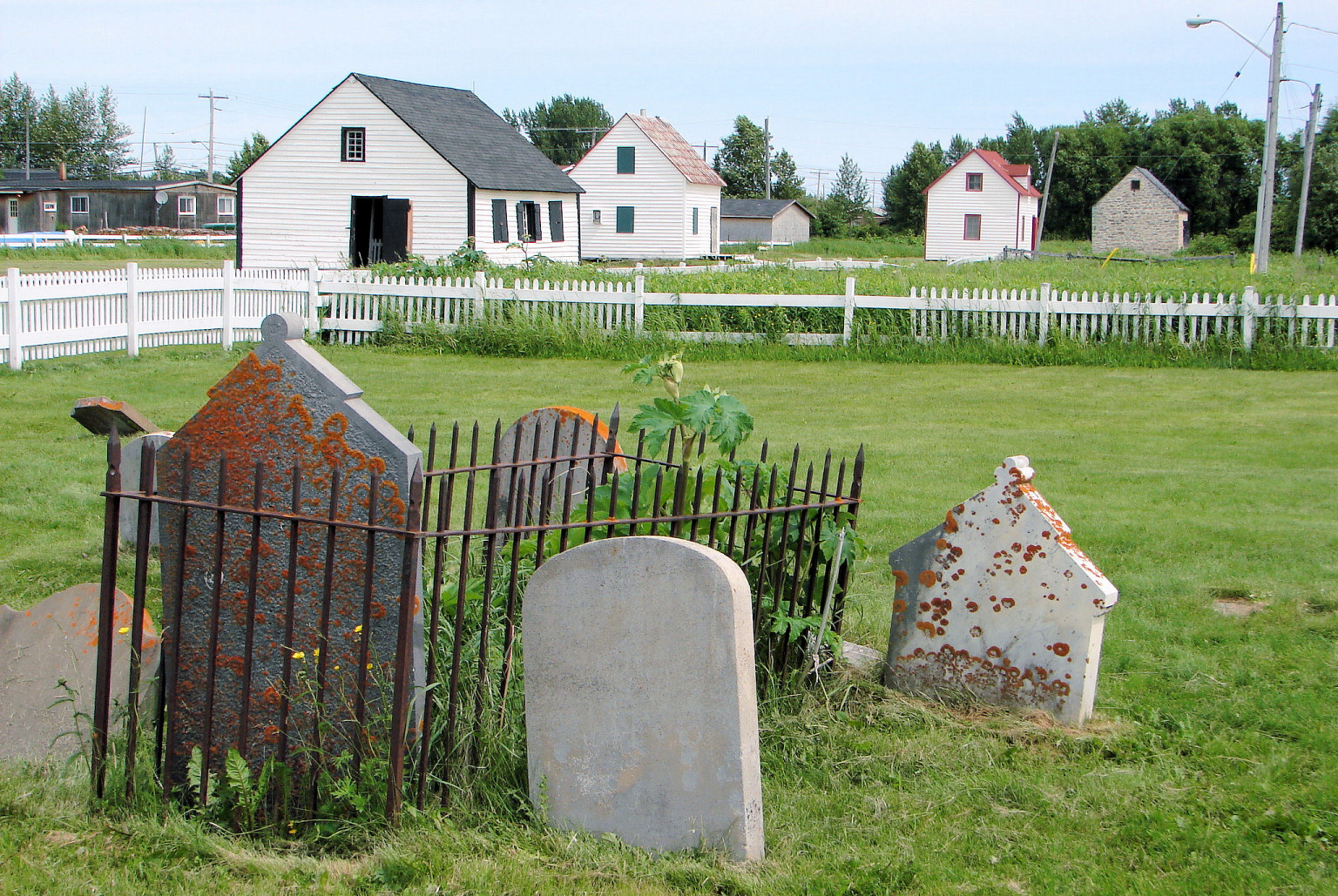 Historic HBC buildings and cemetery in Centennial Park, Moose Factory, Ontario, Canada